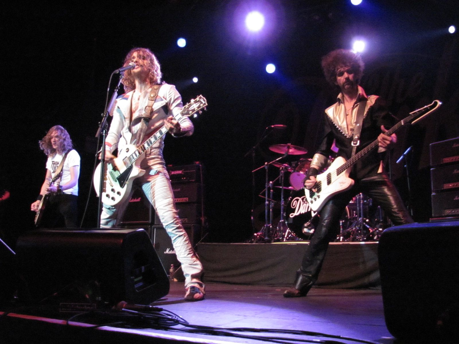 The Darkness (band) in 2012 in New York